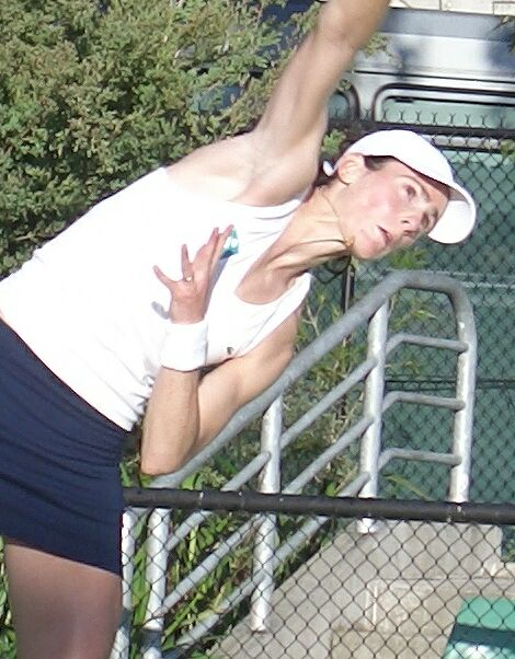 Nathalie Dechy during her first round match of the 2006 Australian Open against Yan Zi. Dechy lost.